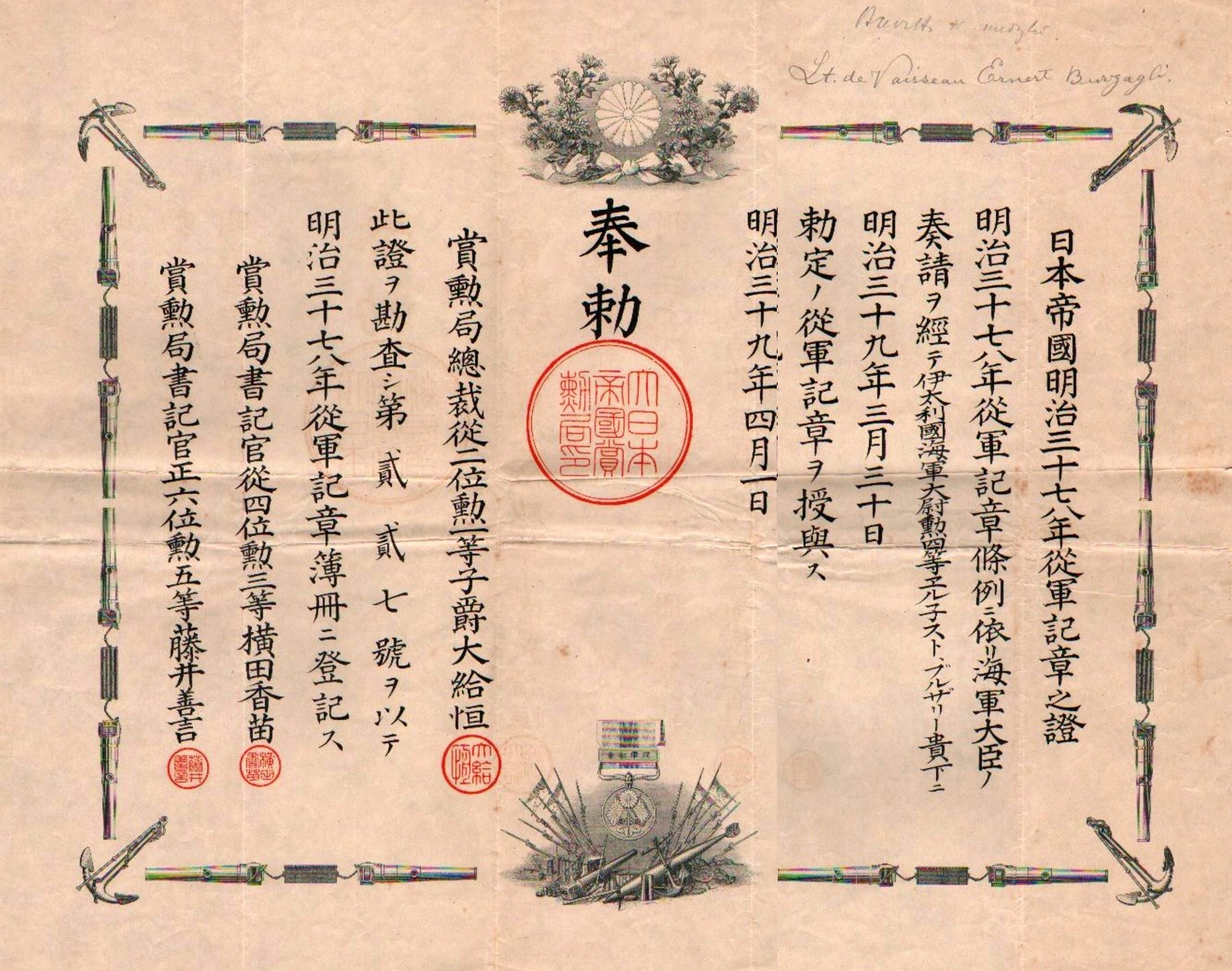 Japanese certificate that a medal honoring participation in battles (jugun kisho) had been presented to Lt. Ernesto Bruzagli. Jugun kisho is a medal given to a soldier who participated in battles in a war. The war in question was indeed the Russo-Japanese War. Rough translation of the body of the document follows: "A medal of honor (jugun kisho) is hereby given, on March 30, 1906, to Ernesto Bruzagli, Lieutenant of the Italian Navy, on application by the Naval Minister of Japan and with the Emperor's approval, pursuant to the Regulation Relating to the Medals Honoring Participation in Battles (1904-05). Dated April 1, 1906." "After review of this certificate, [the presentation to Lt. Bruzagli of the Medal] has been recorded on the Roll of Medals of Honor." Translated by Gewurz55 from japanese Wikipedia.